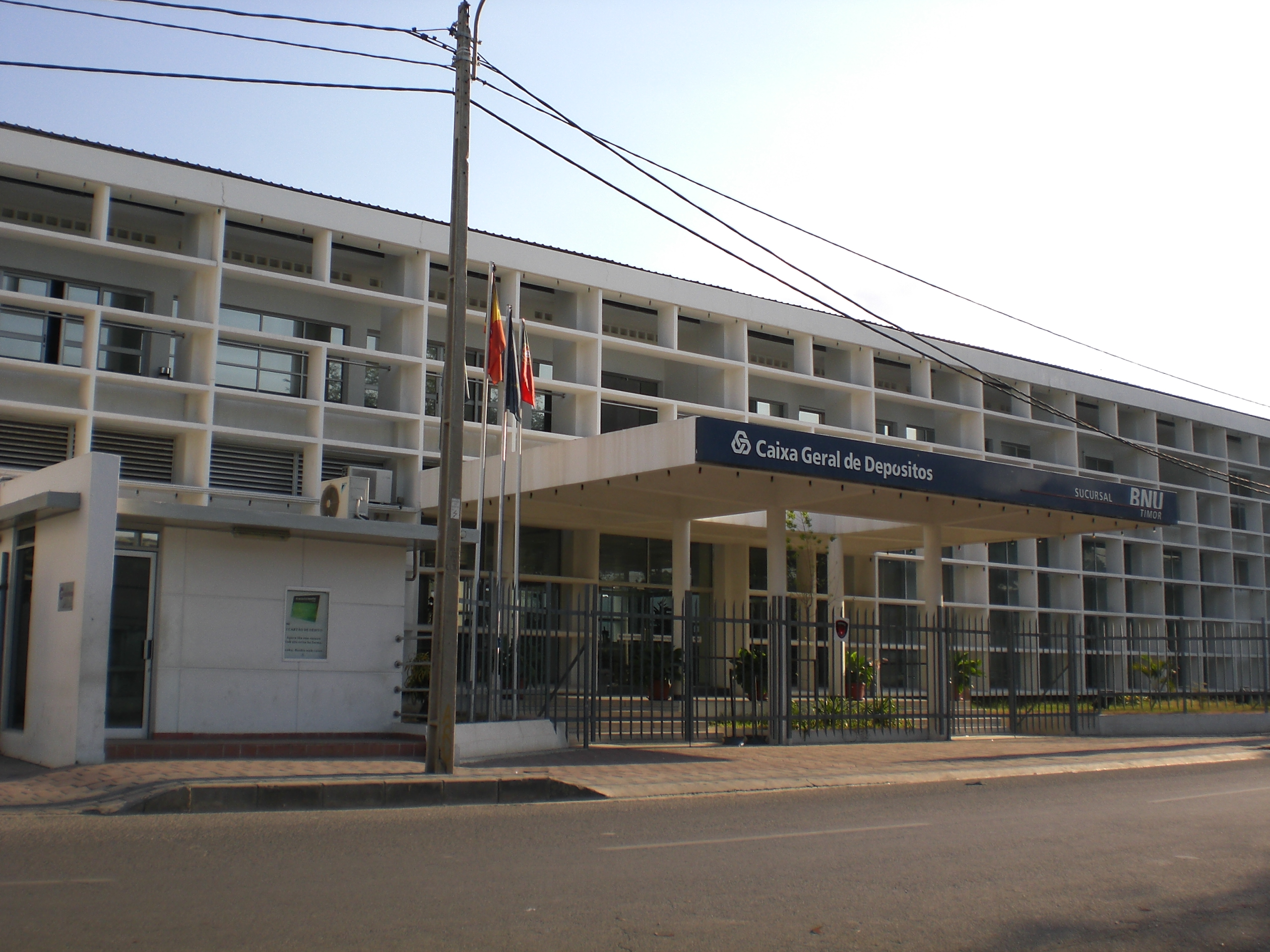 Caixa Geral de Depósitos building in Dili/Timor-Leste